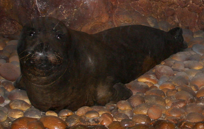 The Natural history museum in Milan, Italy. Diorama with a Monachus monachus (Monk seal). Picture by Giovanni Dall'Orto, April 22 2007.